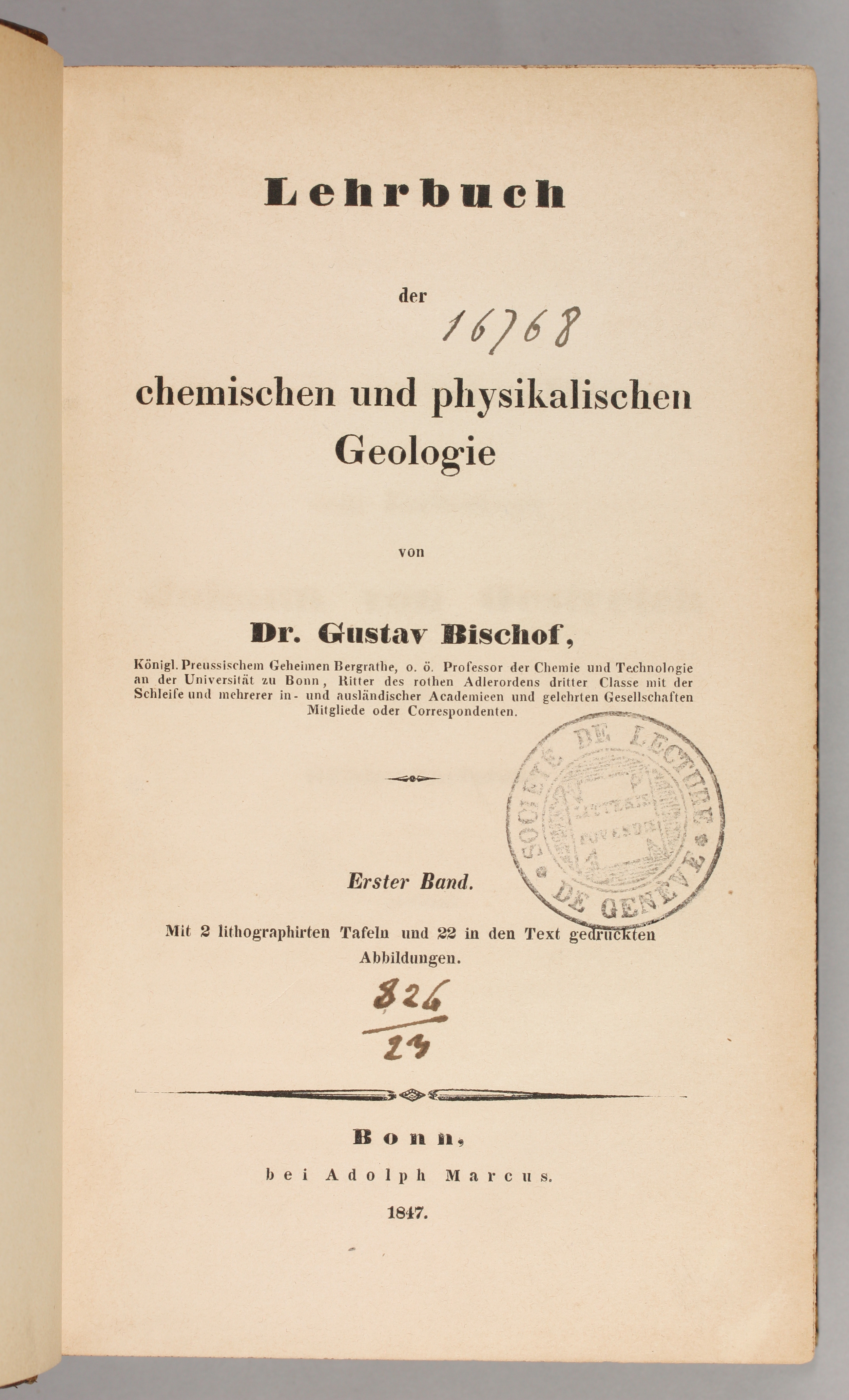 Title page from Lehrbuch der chemischen und physikalischen geologie von Dr. Gustav Bischof, Bonn: A. Marcus, 1847-54. Bischof introduced chemical analysis into widespread use in geology. His Lehrbuch der chemischen und physikalischen Geologie (Bonn: Marcus, 1847−1866) was the standard text of geochemistry.